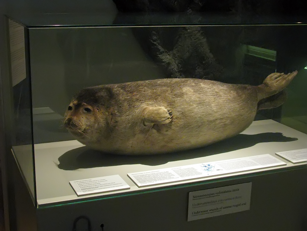 A taxidermied Saimaa ringed seal (Pusa hispida saimensis) at the Finnish Museum of Natural History in Helsinki, Finland